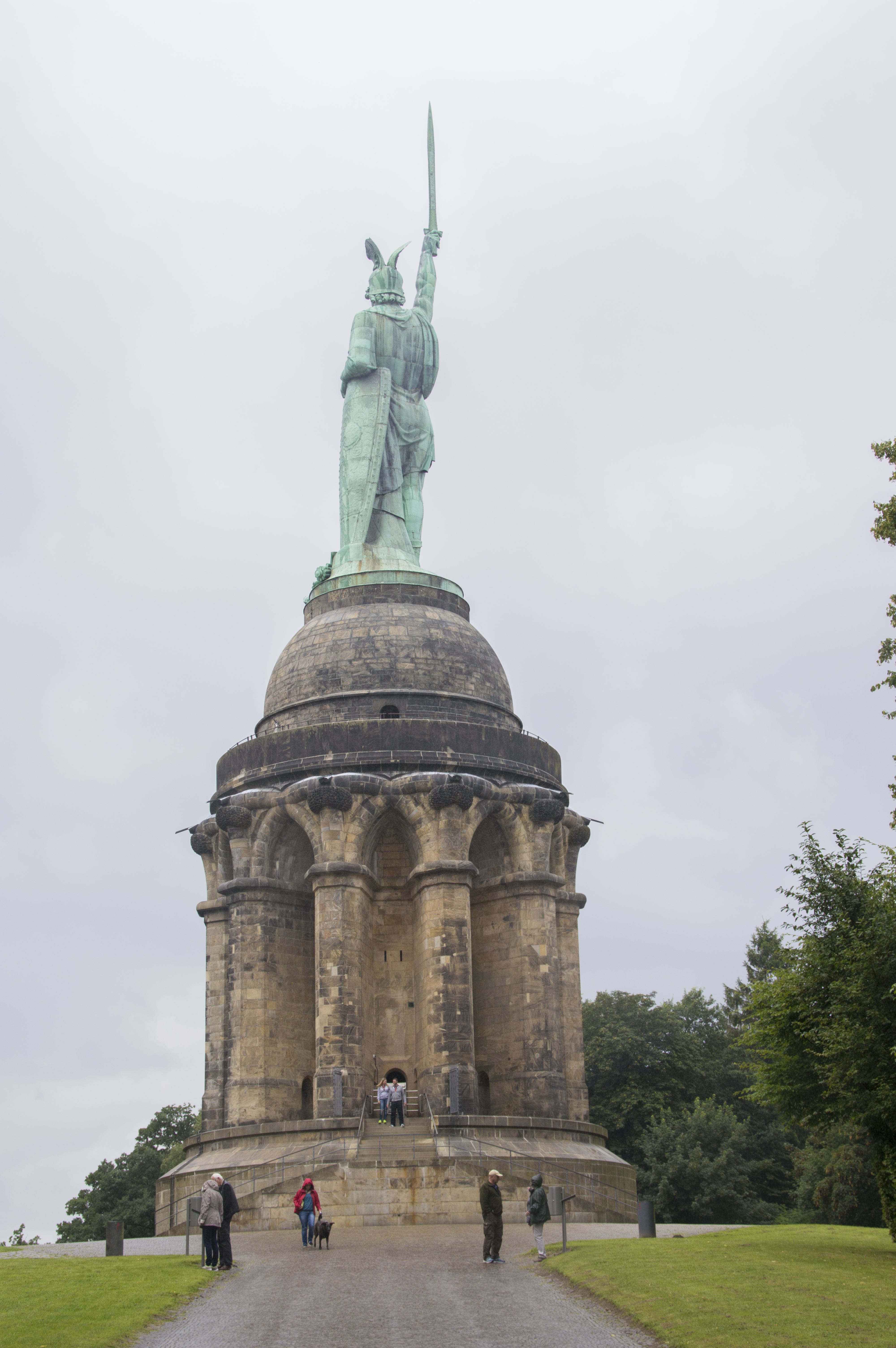 Hermannsdenkmal in 2016 from the backside